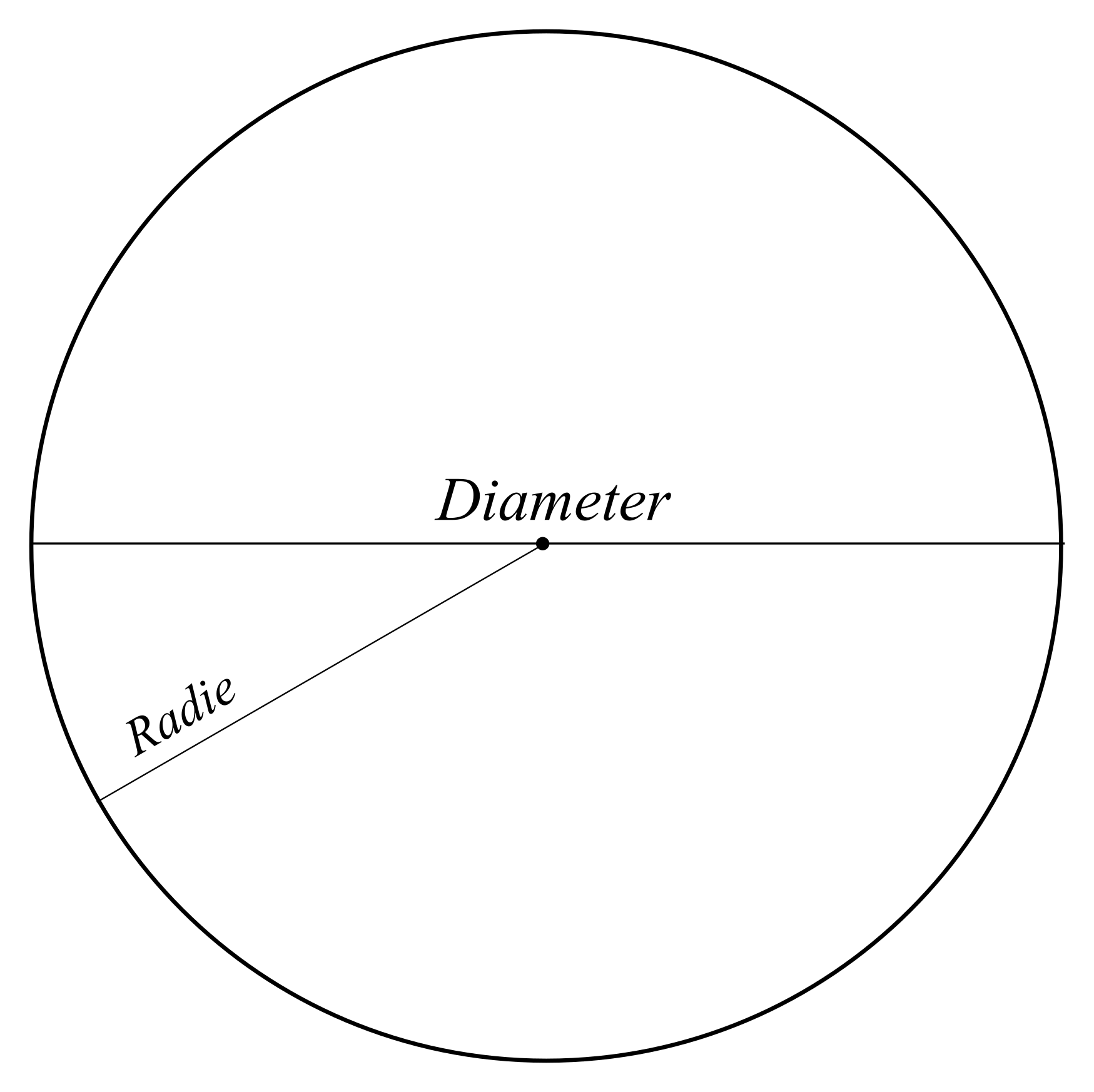 Circle